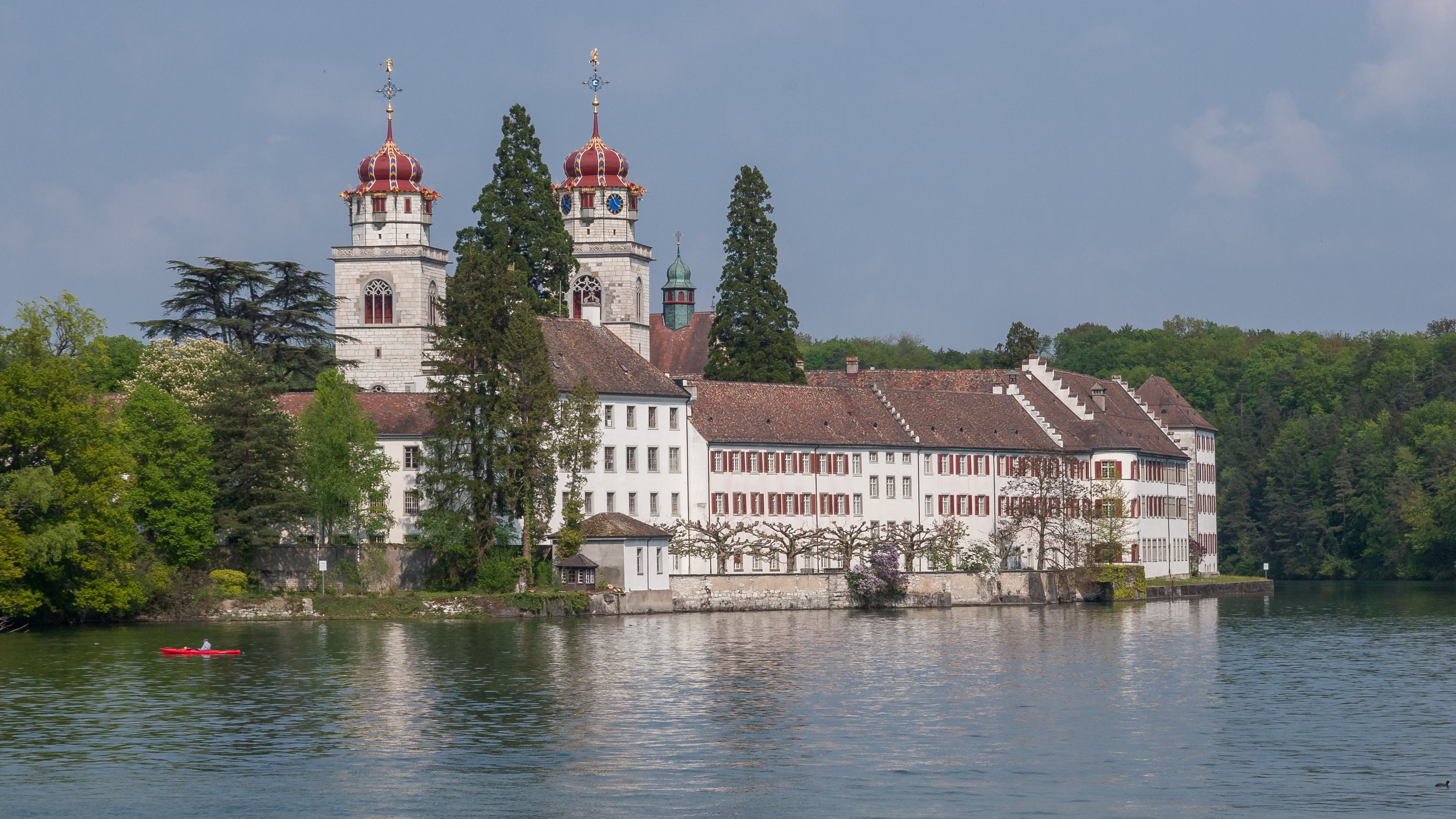 Former Monastery Rheinau (2009)